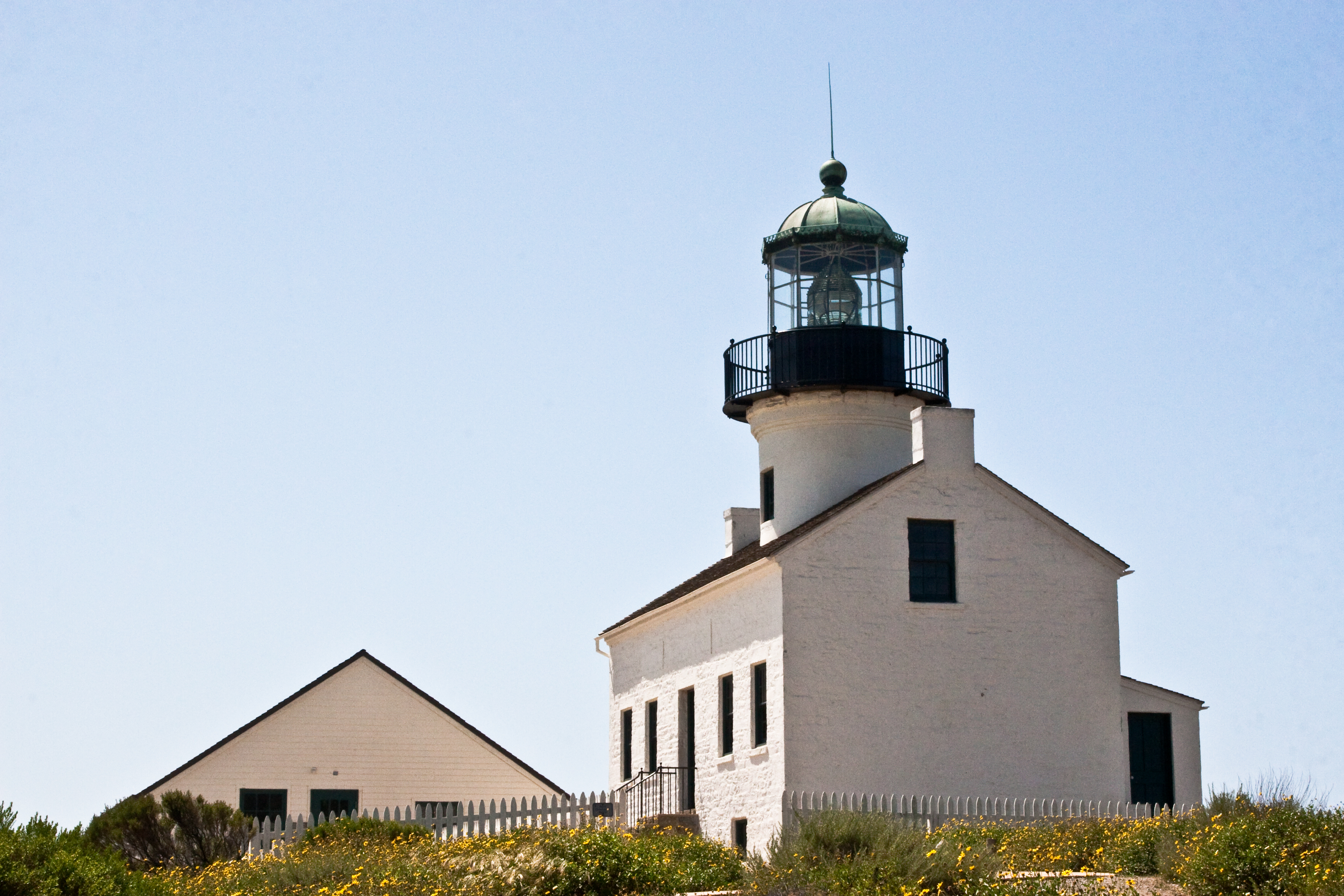 Point Loma in Spring 2009. Landscaping complete in this picture.